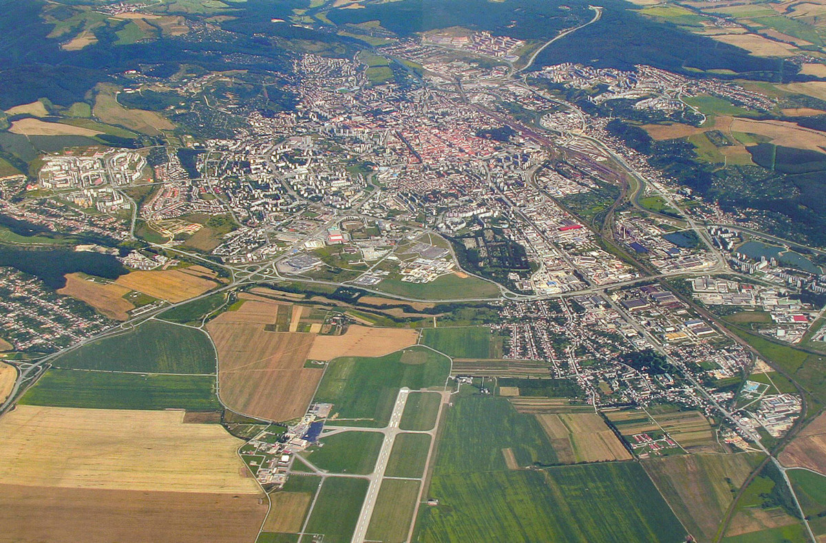 Panaroma Košice